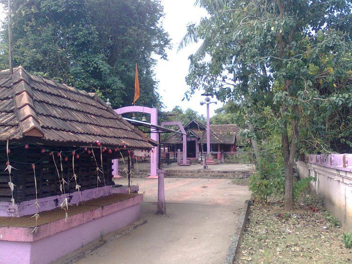 Mannady devi temple, Adoor, Pathanamthitta